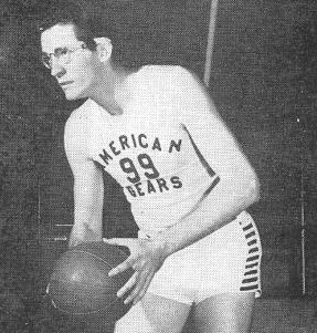 Professional basketball player Geroge Mikan